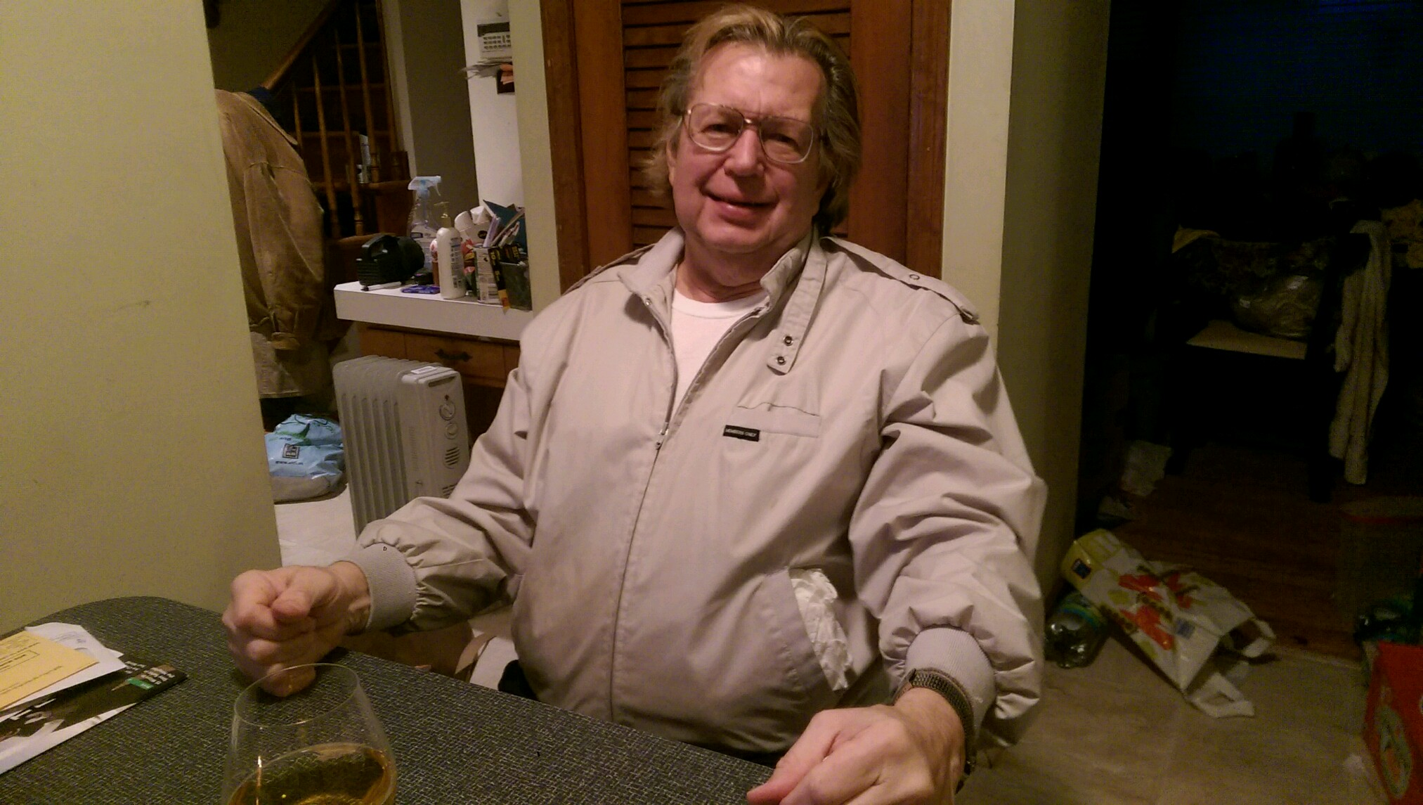 Man wearing a Members Only jacket.